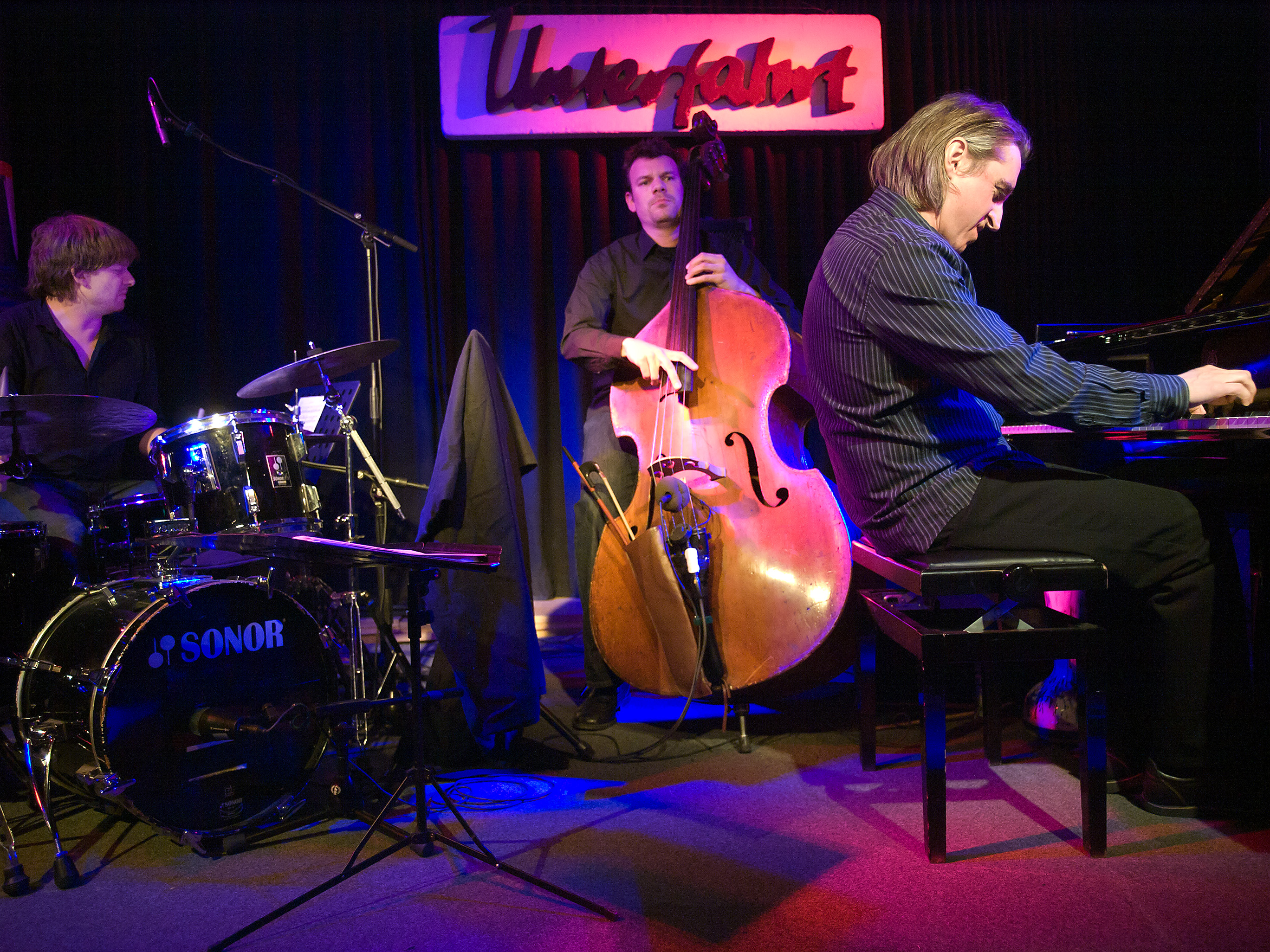 Christoph Stiefel Inner Language Trio (from left to right: Lionel Friedli, Thomas Lähns, Christoph Stiefel); Picture taken in Jazz Club Unterfahrt, Munich/Bavaria